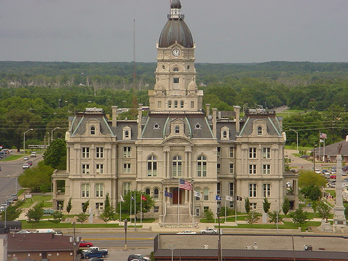 The Vigo County Courthouse, taken from the roof of the Sycamore Building in downtown Terre Haute in July '06. --Simon Dodd 00:09, 28 July 2006 (UTC)